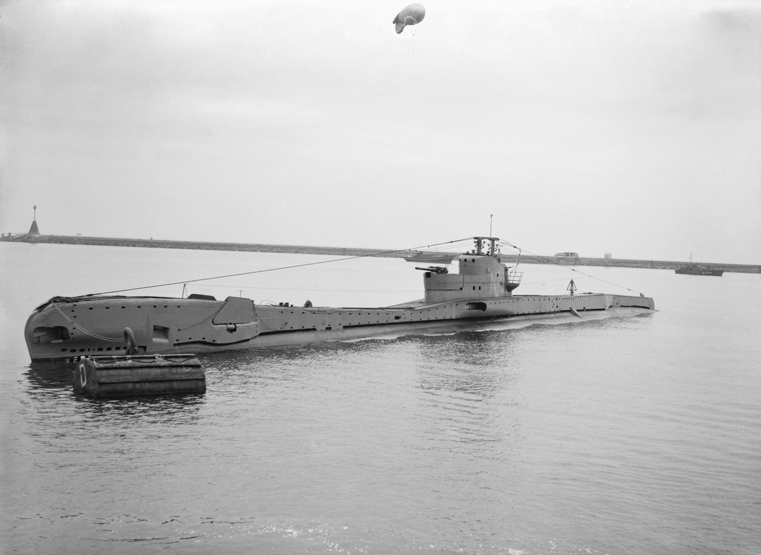 IWM caption : HMSM TORBAY secured to a buoy in Plymouth Sound fitted with an external stern tube, 20mm Oerliken and radar.